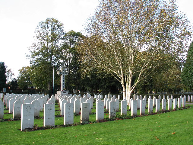 Polish War Section Of Newark Cemetery. Several hundred Polish servicemen are buried here in Newark cemetery. Up until 1993 so was their leader General Sikorski.